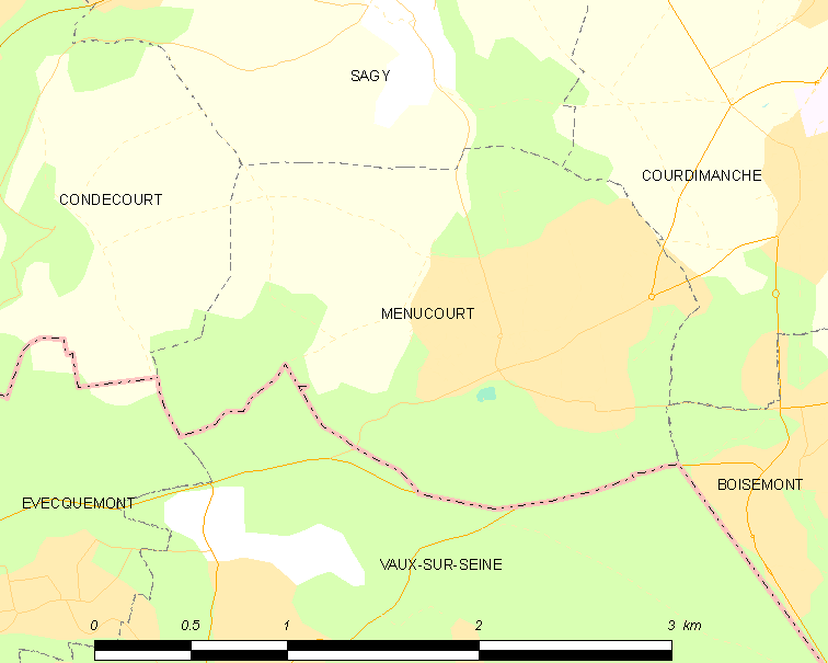 Map of French municipality Menucourt